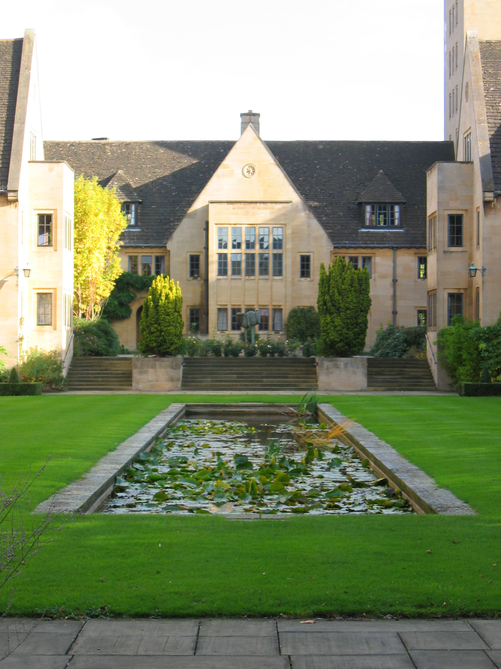 Taken by myself on 8 October 2006, in the afternoon sun.